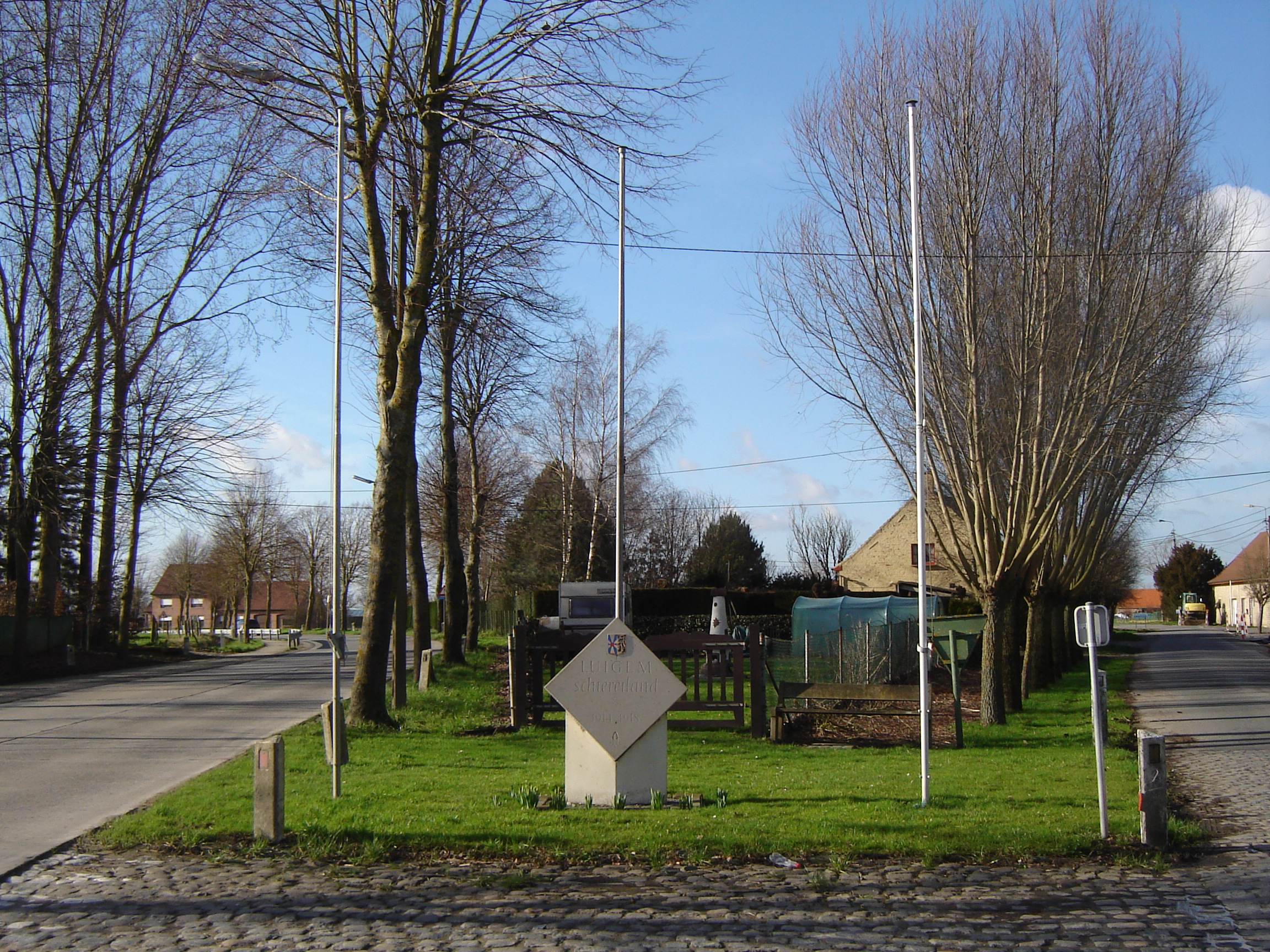 Name stone 1914-1918 - "Luigem schiereiland" (Luigem peninsula) (no. 19, fourth series) in the hamlet of Luigem. Merkem, Houthulst, West Flanders, Belgium